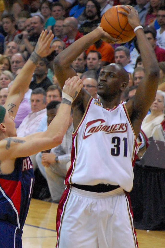 Jawad Williams of the Cleveland Cavaliers. This file has been extracted from another file: Jawad Williams shooting over Mike Bibby.jpg